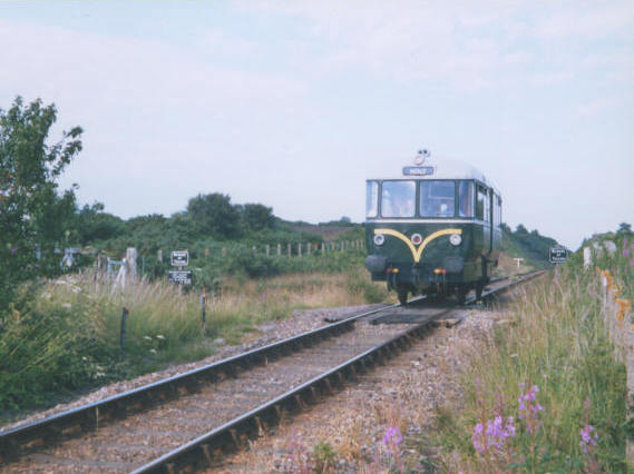 Kelling Heath crossing. The footpath crossing at the summit of the North Norfolk Railway on Kelling Heath. It is an unguarded crossing - there is only a "beware of trains" notice.